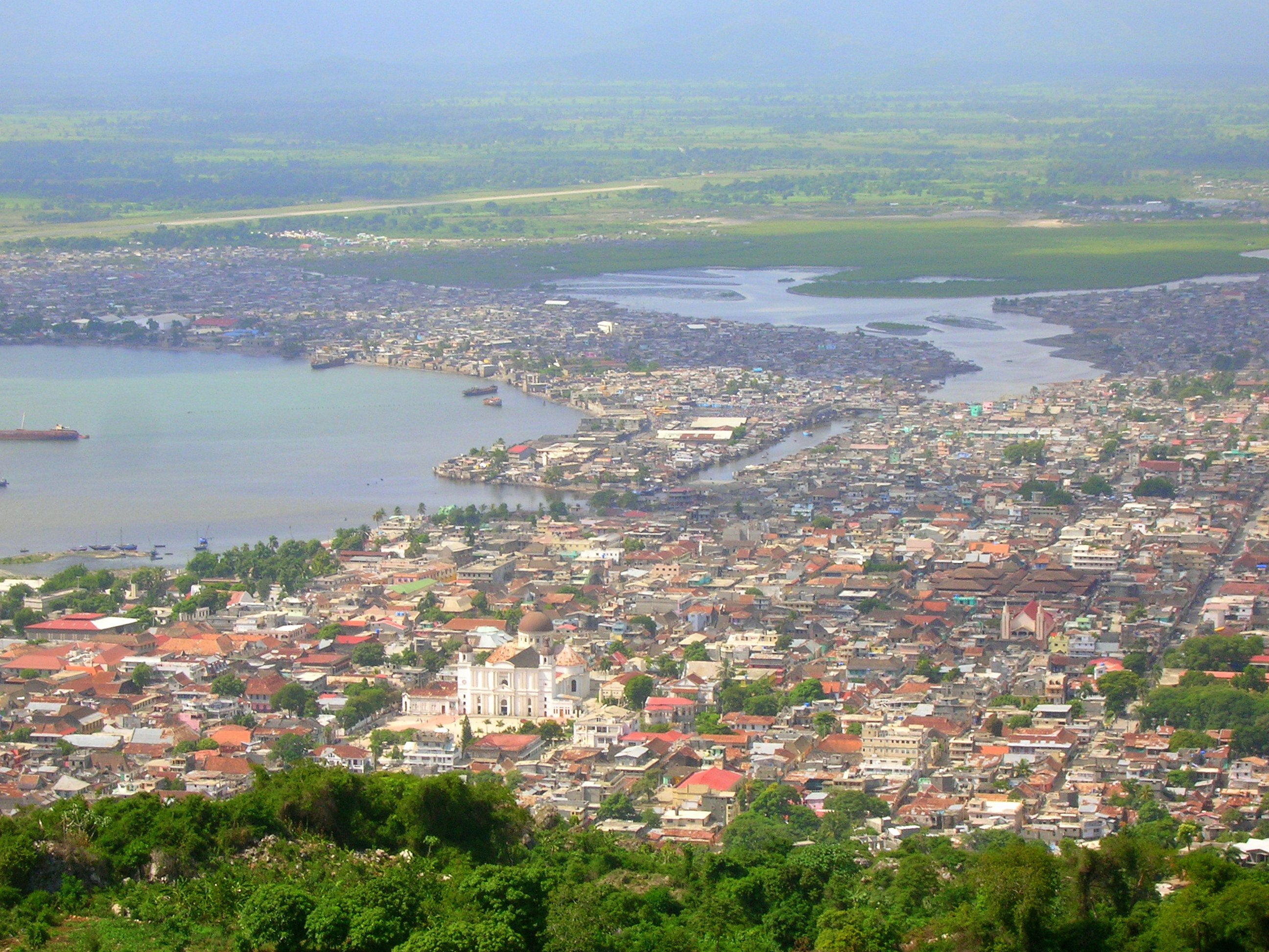 A view of Cap-Haitien from a morne. The city centre and the catheral is in front.